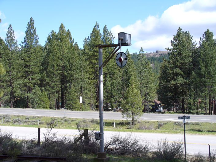 This is a picture of a Magnetic Flagman Wig Wag I found in Portola, California just off of state highway 70 on Meadow Way (I believe it is an old highway 70 road bed)